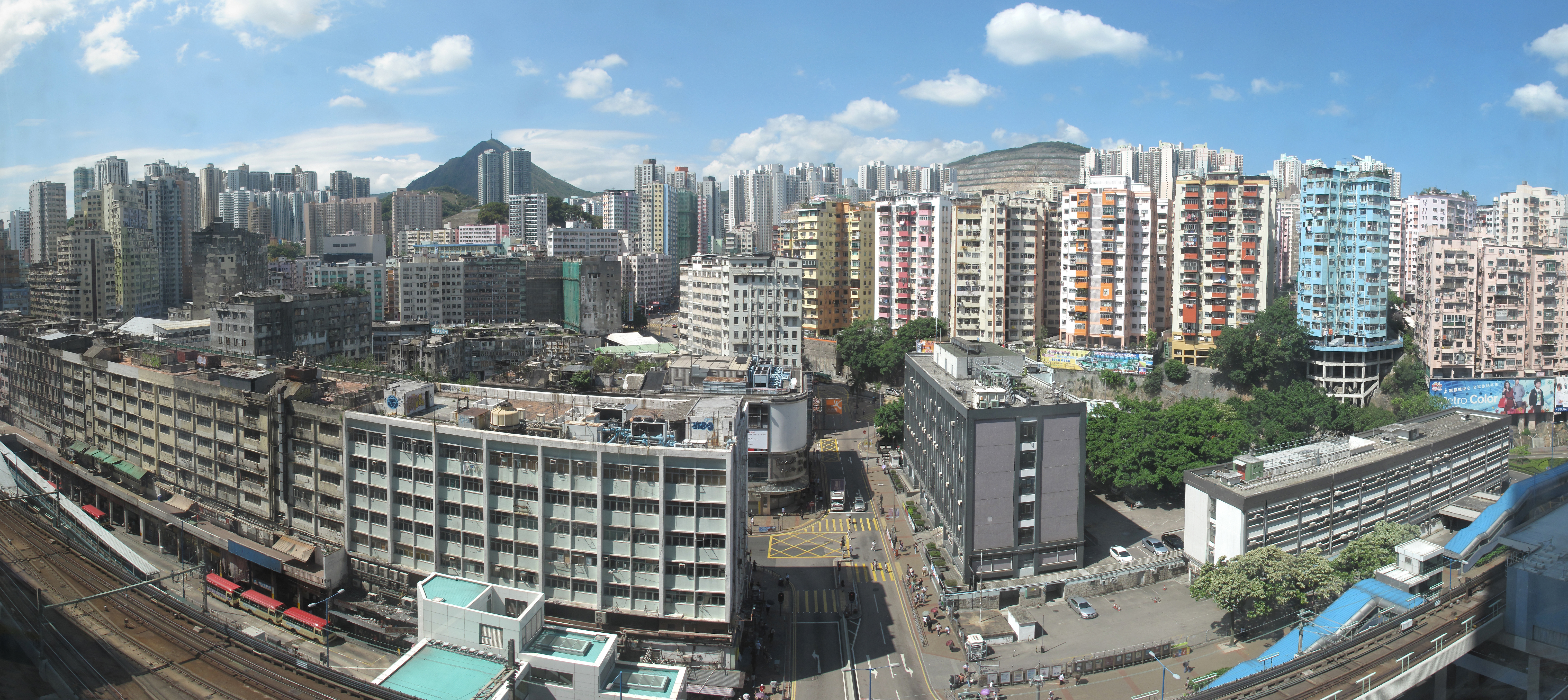 Panoramic photo of Kwun Tong Town Centre, combined from 5712599903, 5713164224, 5712607007, 5713171594, 5712615109, 5712618897, 5712622709, 5712626765, 5713191992, 5713196248 and 5712639977